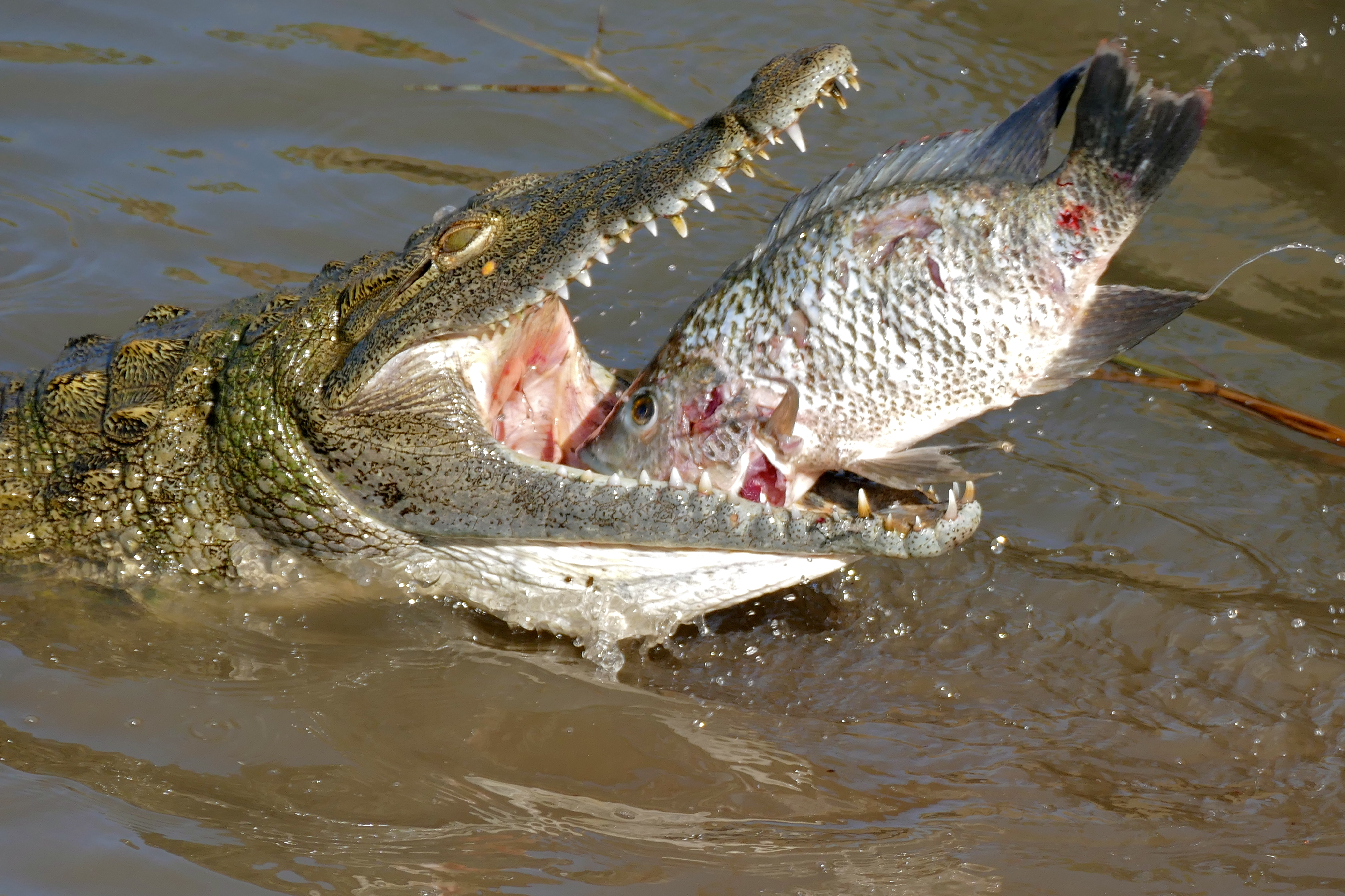 Sabie Bridge, H10 Road East of Lower Sabie, Kruger NP, SOUTH AFRICA